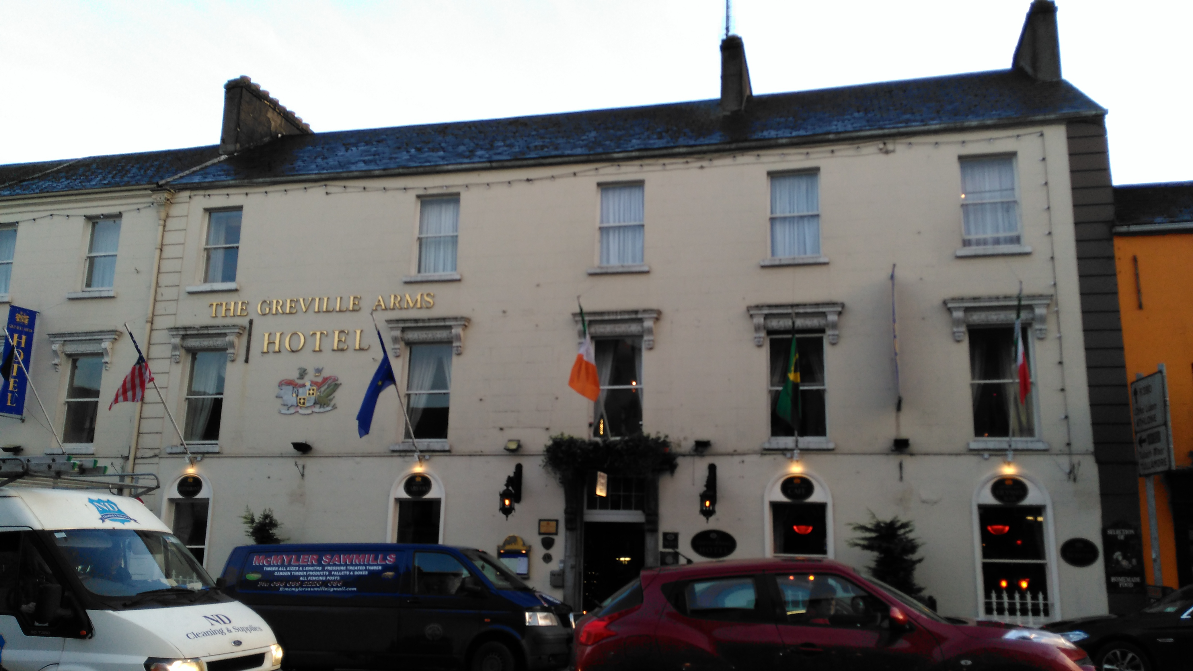 A view of the Greville Arms Hotel's exterior on Pearse Street, Mullingar